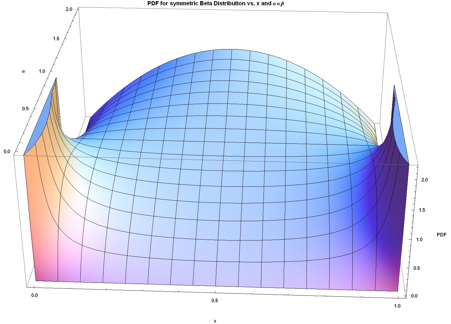 PDF for symmetric beta distribution vs. x and alpha=beta from 0 to 2 - J. Rodal